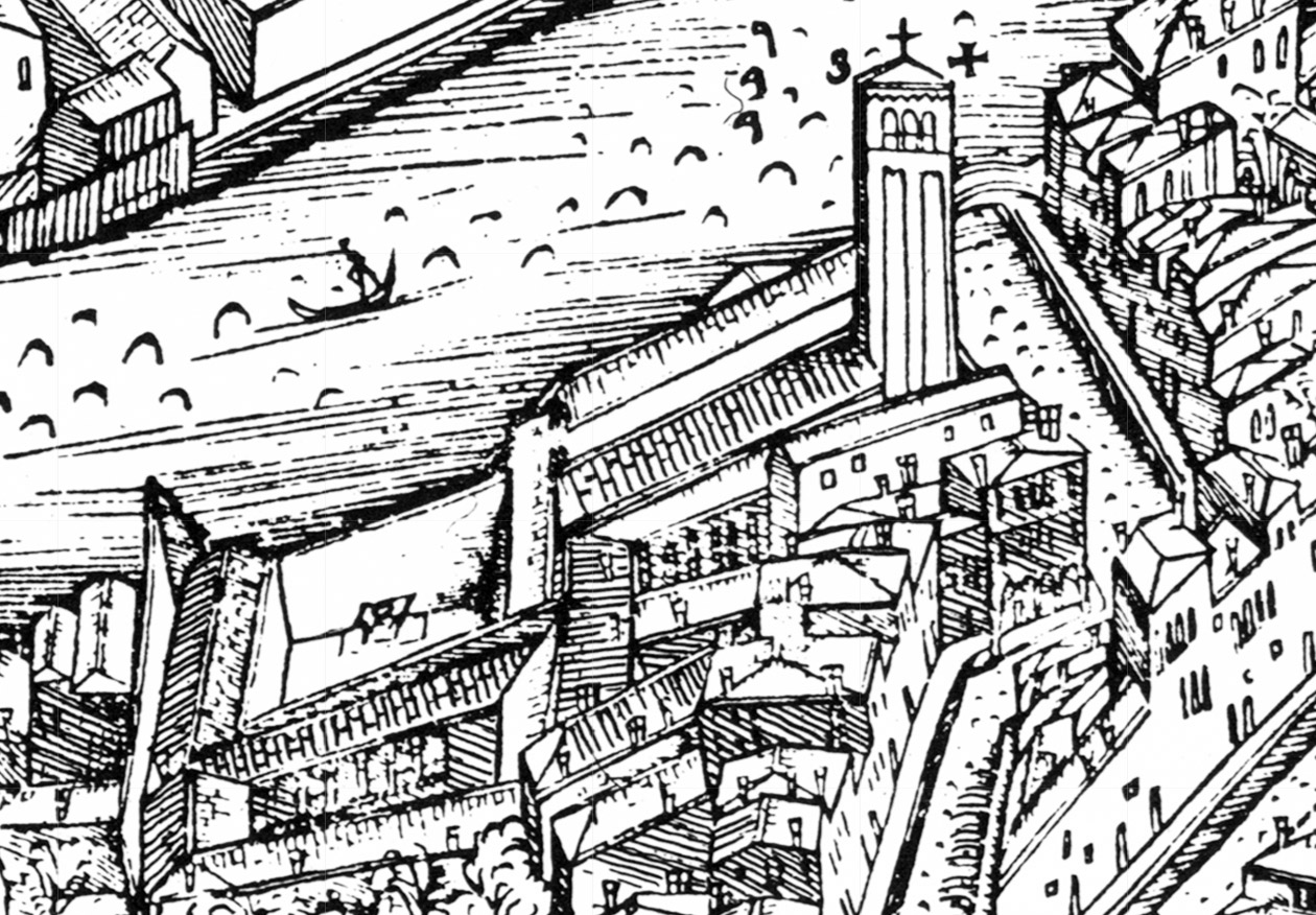 Jacopo de' Barbari (Venetian, c. 1460/1470 - 1516 or before), View of Venice [detail], Santa Croce church, 1500, woodcut on two sheets pasted together, Rosenwald Collection 1950.1.14